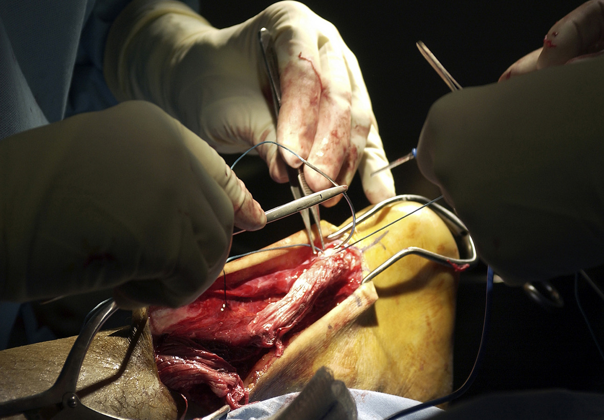 Repair of the ruptured achilles tendon of a male human on March 11, 2003. The doctors are performing this delicate orthopedic surgey at a field hospital.